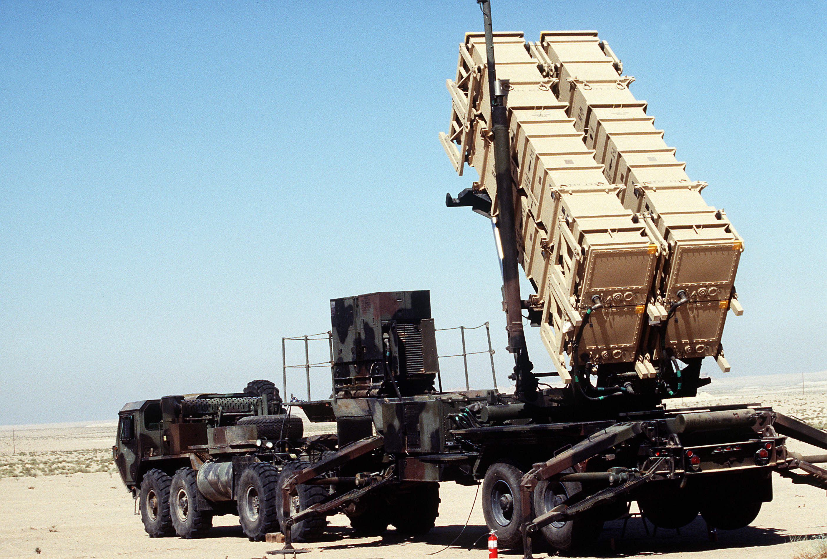 An MIM-104 Patriot tactical air defense missile launcher of Btry. E, 3rd Bn., 43rd Air Defense Arty., is deployed in the desert during Operation Desert Shield. The truck is a HEMTT M983.